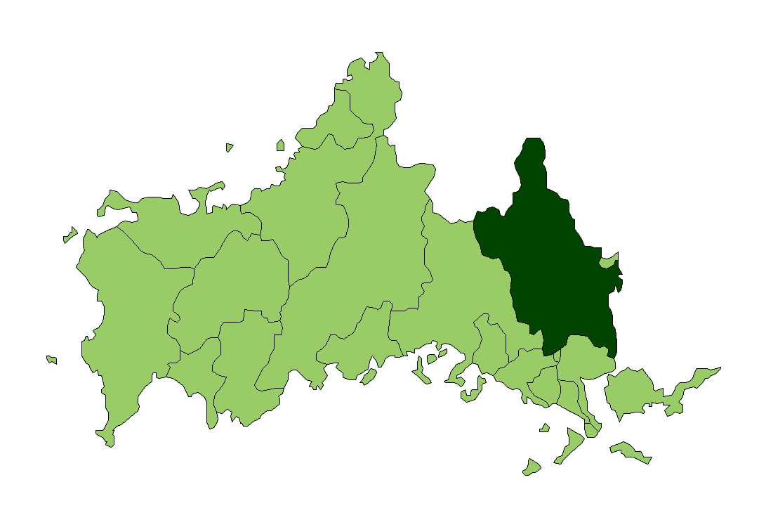 Location Map of Iwakuni in Yamaguchi Prefecture, Japan